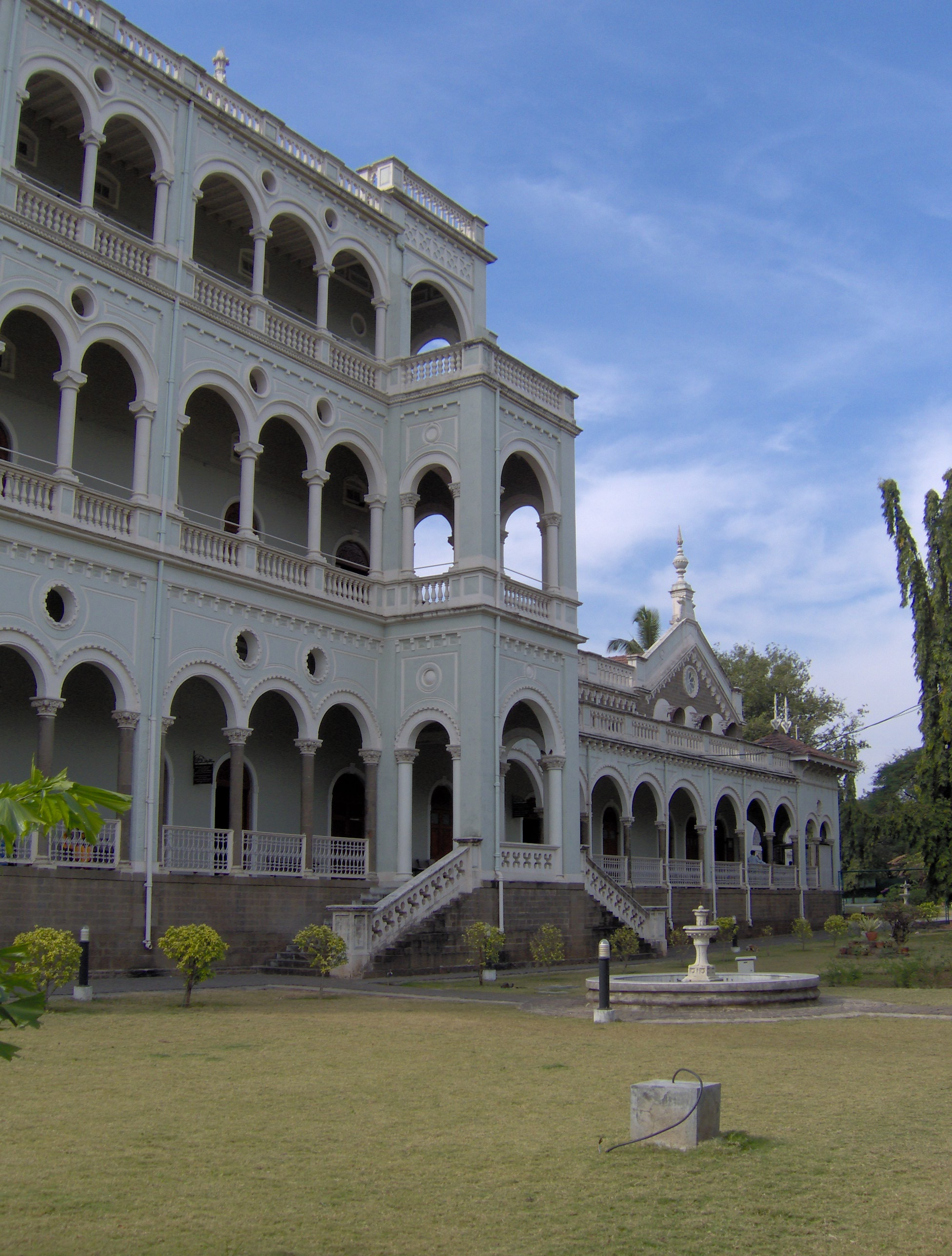 A view of the Aga Khan's (Shia Imam) Palace at Pune, where MK Gandhi was interred during much of World War II. He, his wife, and his personal secretary are all buried there. QuartierLatin1968 05:25, 12 December 2005 (UTC)